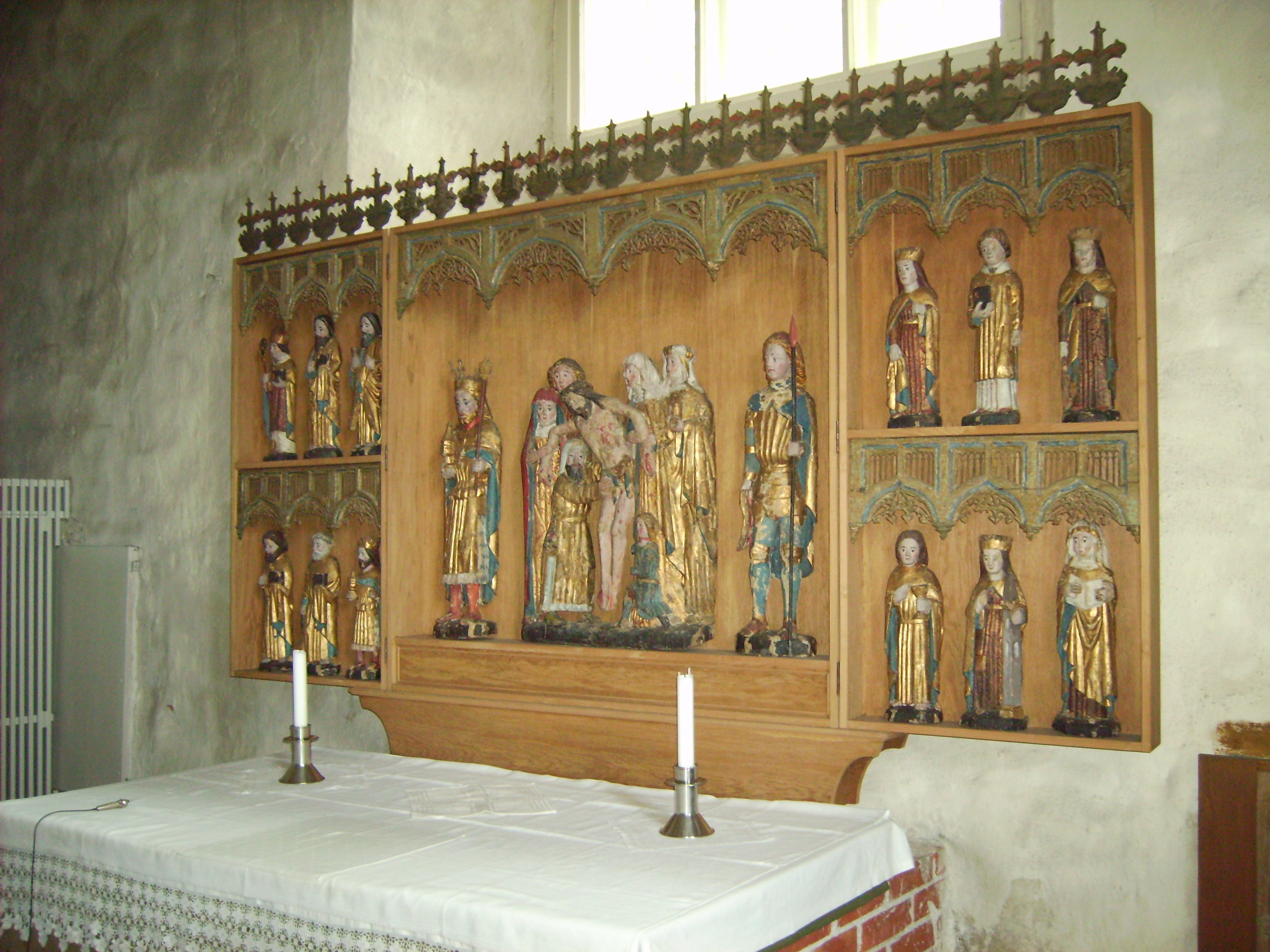 Altar of the medieval church in Korpo, Finland